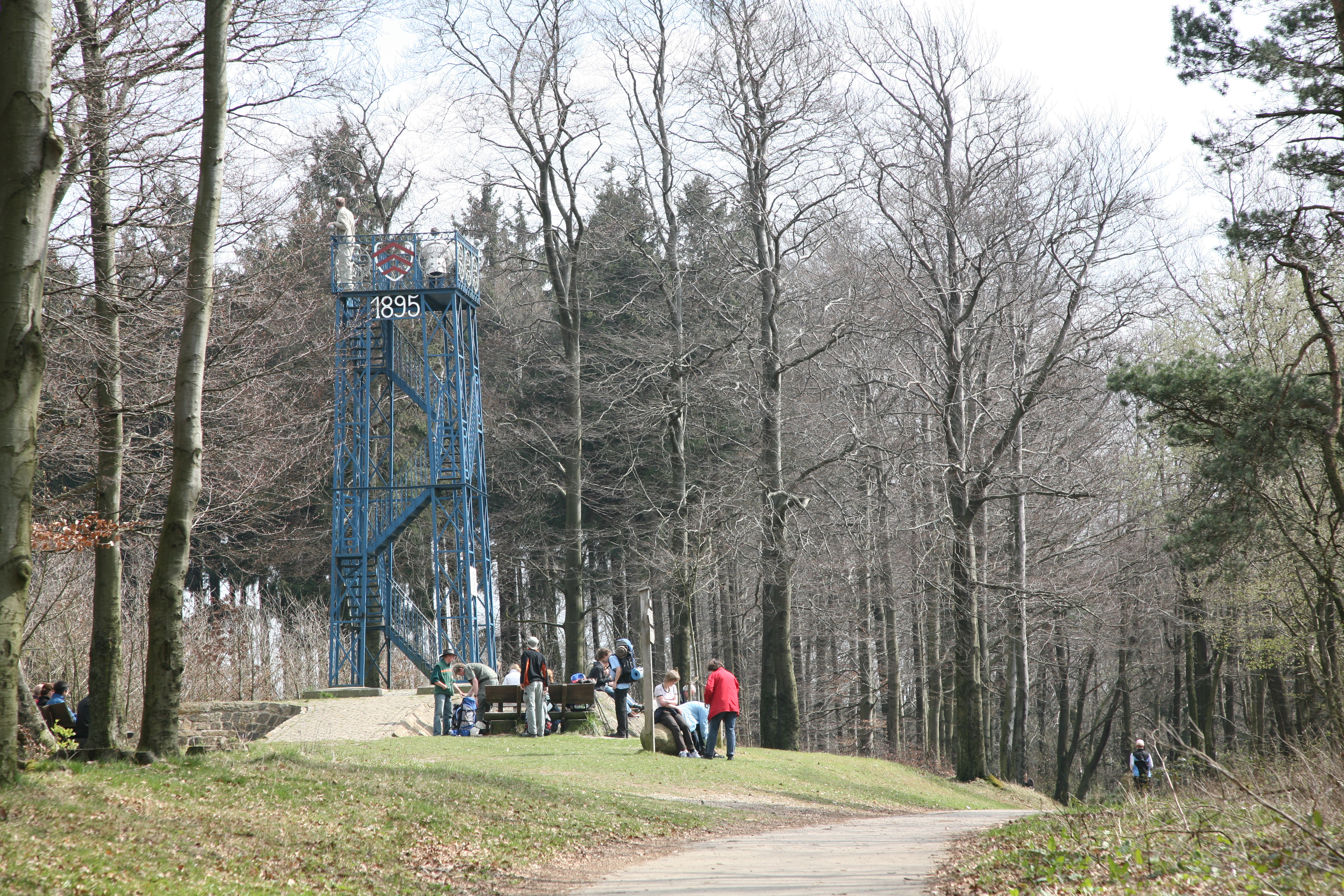 The Iron Anton watchtower in Bielefeld, Germany.